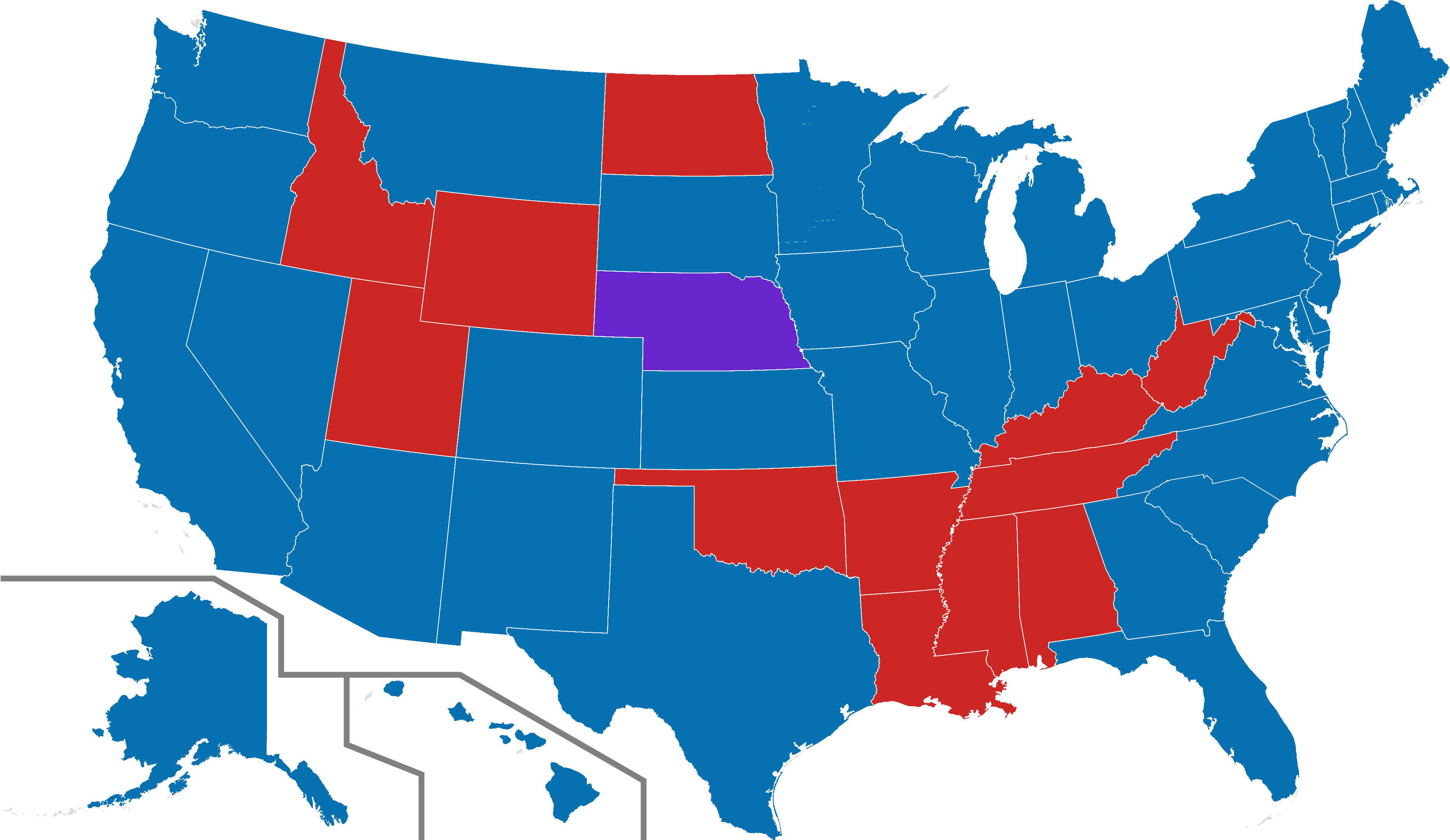 Map showing the female vs. male voting differences in the 2016 United States presidential election. Data SVG source: File:2016 presidential election, results by congressional district.svg, sourced on File:113th U.S. Congress House districts blank.svg.